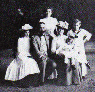 Louis Alexander Mountbatten, 1st Marquess of Milford Haven with his family